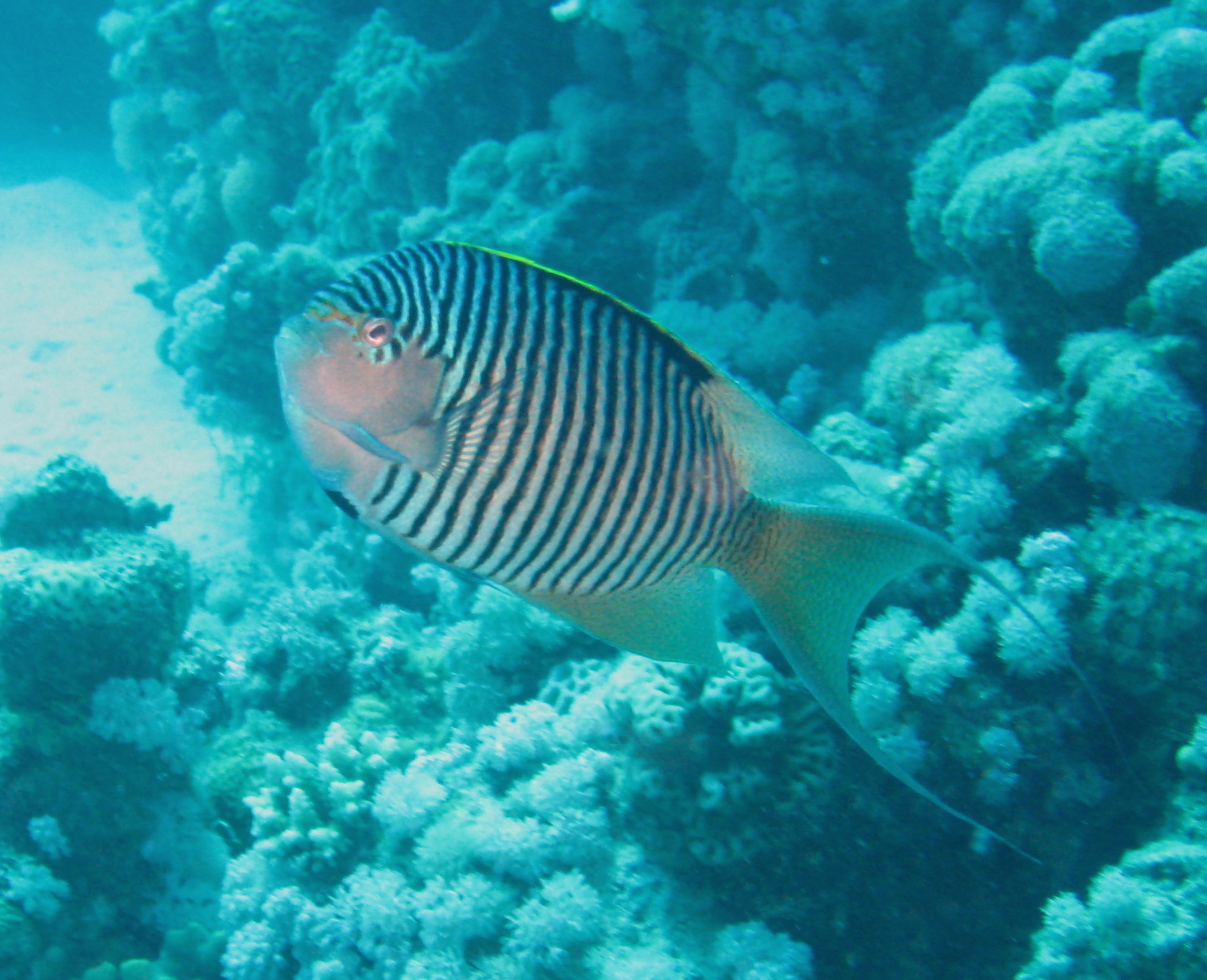 Male Genicanthus caudovittatus in the Red Sea